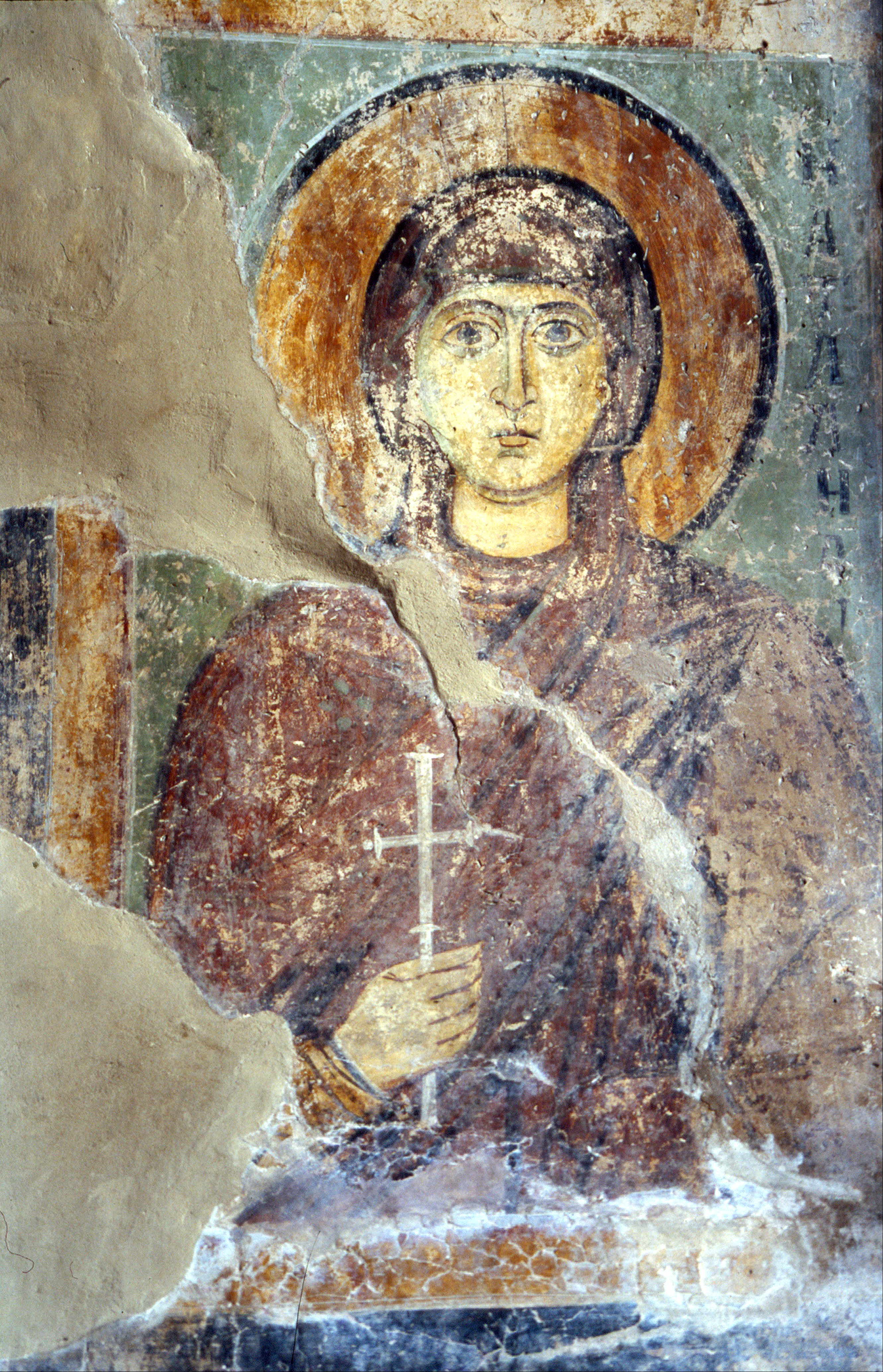 Saint Natalia, having learnt about the action of her husband, strongly supported him, sharing his faith and his destiny. She died on his grave, mourning him.